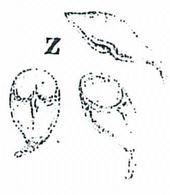 Drawing of Giardia trophozoites by Czech physician Vilém Dušan Lambl in 1859. Found in the stool of his patients.